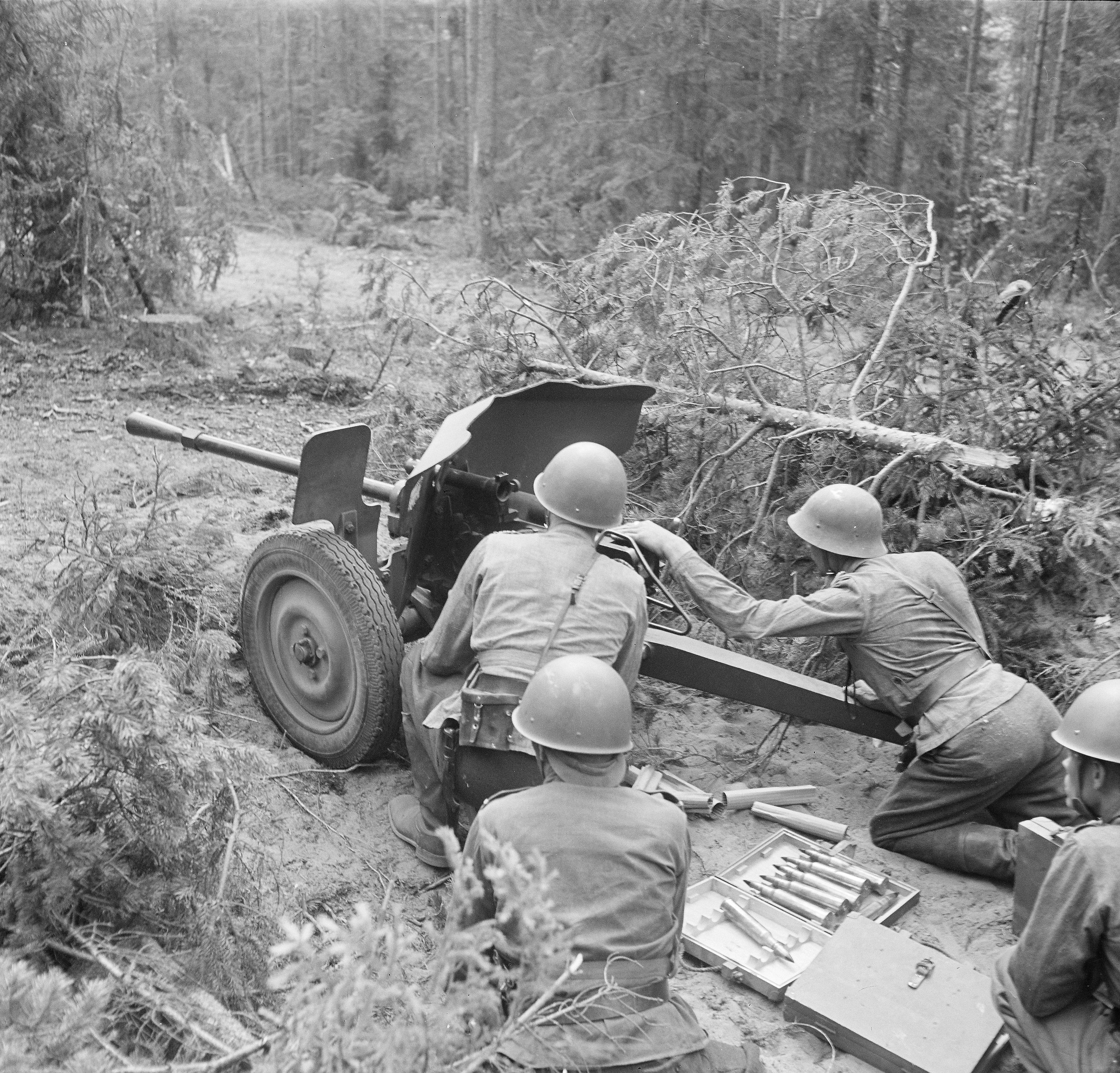 French 25 mm Hotchkiss anti-tank gun in Finnish service. French designation was Canon léger de 25 antichar SA-L modèle 1934. Finnish designation of the gun was 25 PstK34.